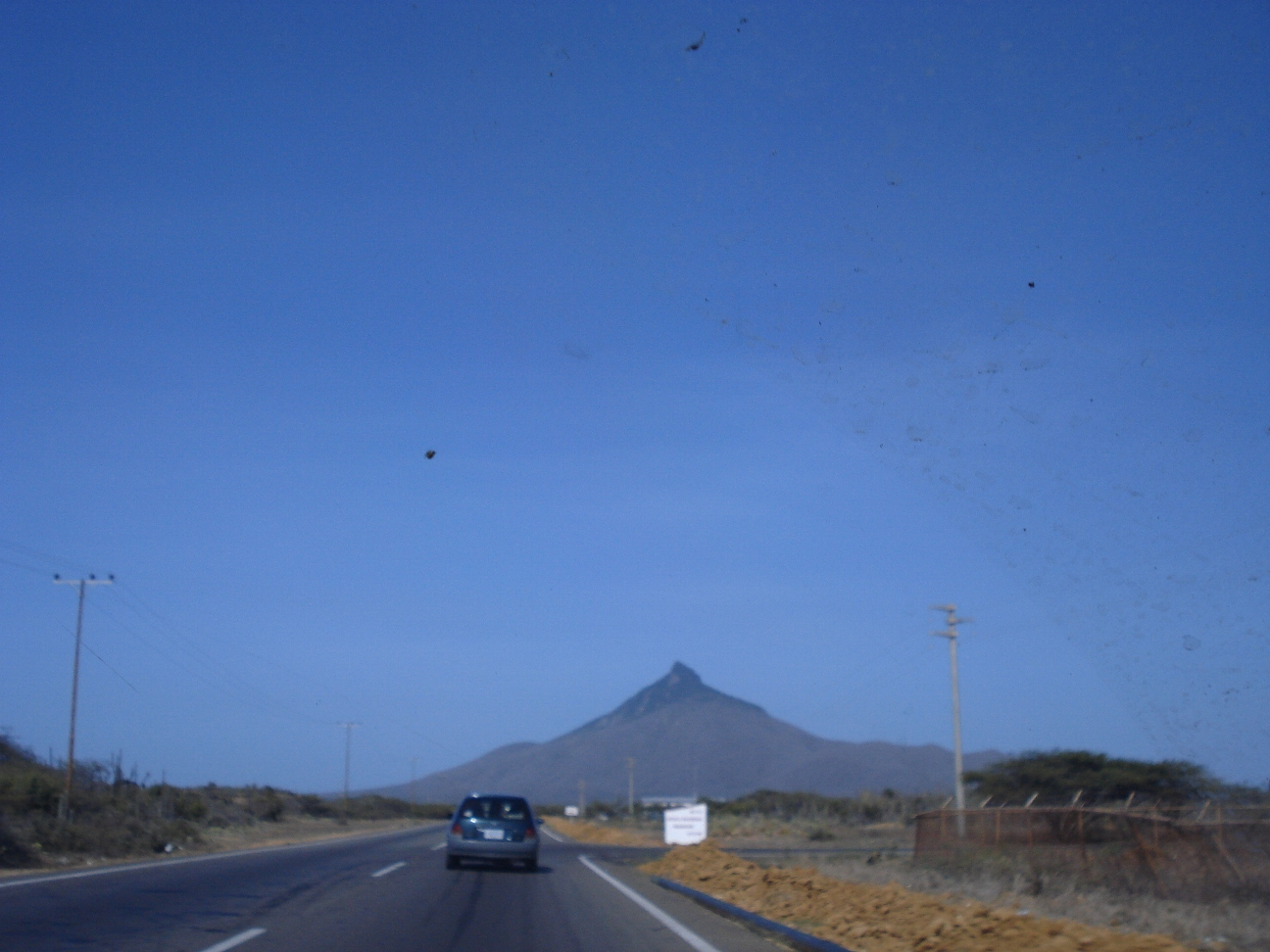 View of the Cerro Santa Ana in the Peninsula of Paraguaná, near to the northest point of Venezuela.